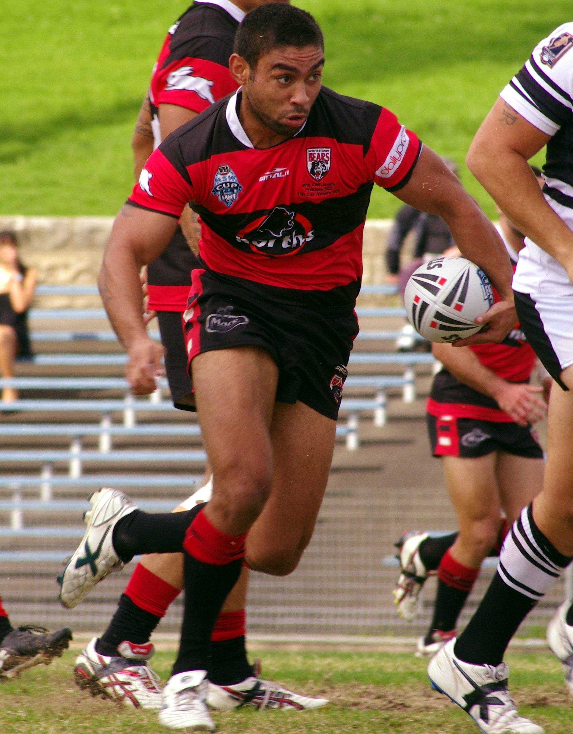 Nathan Merritt